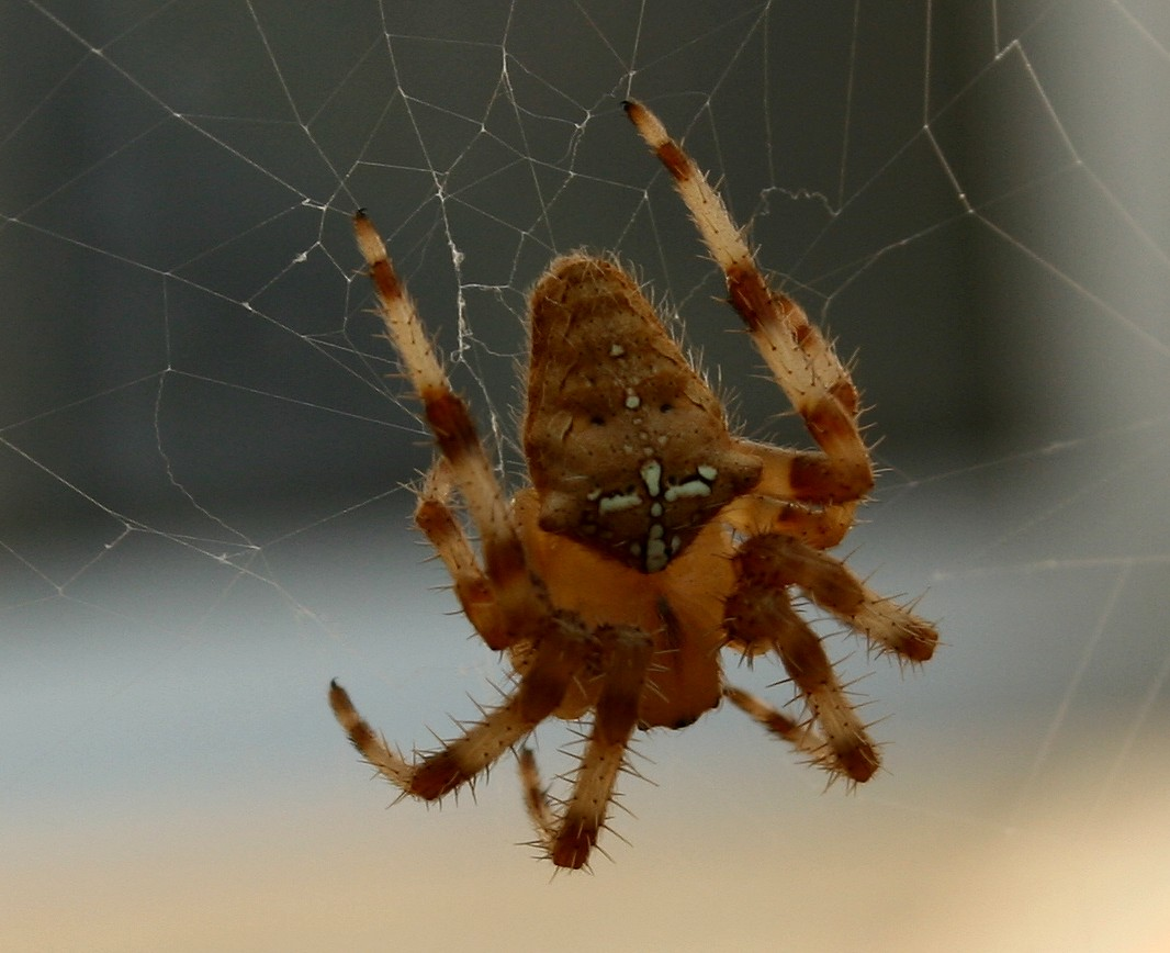 araneus pallidus